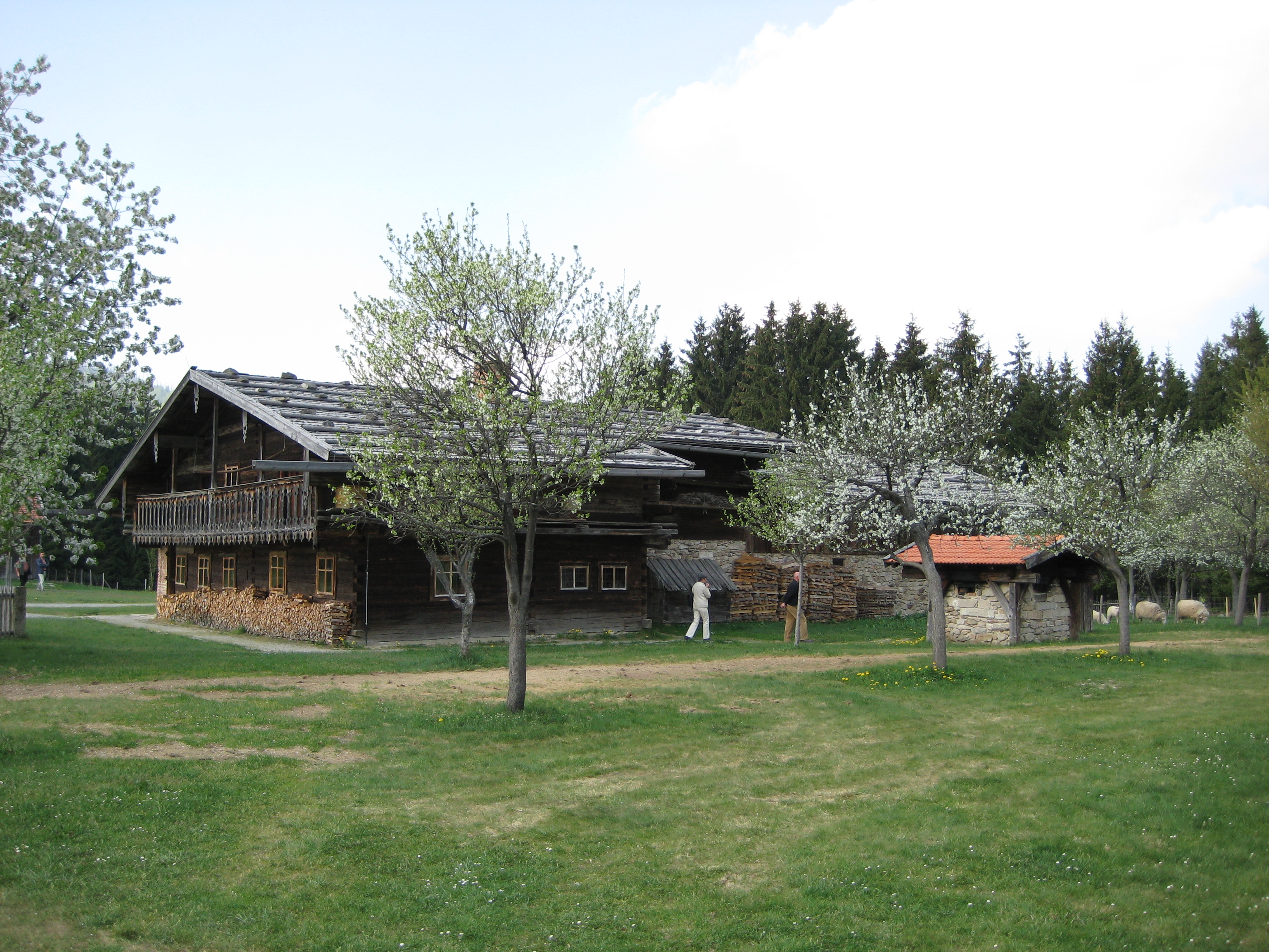 Country life museum Finsterau, Bavarian Forest